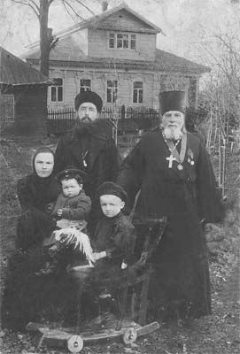 Christian orthodox martyr, priest Arseny Troitsky - village Selikhovo, Tver region, 1907